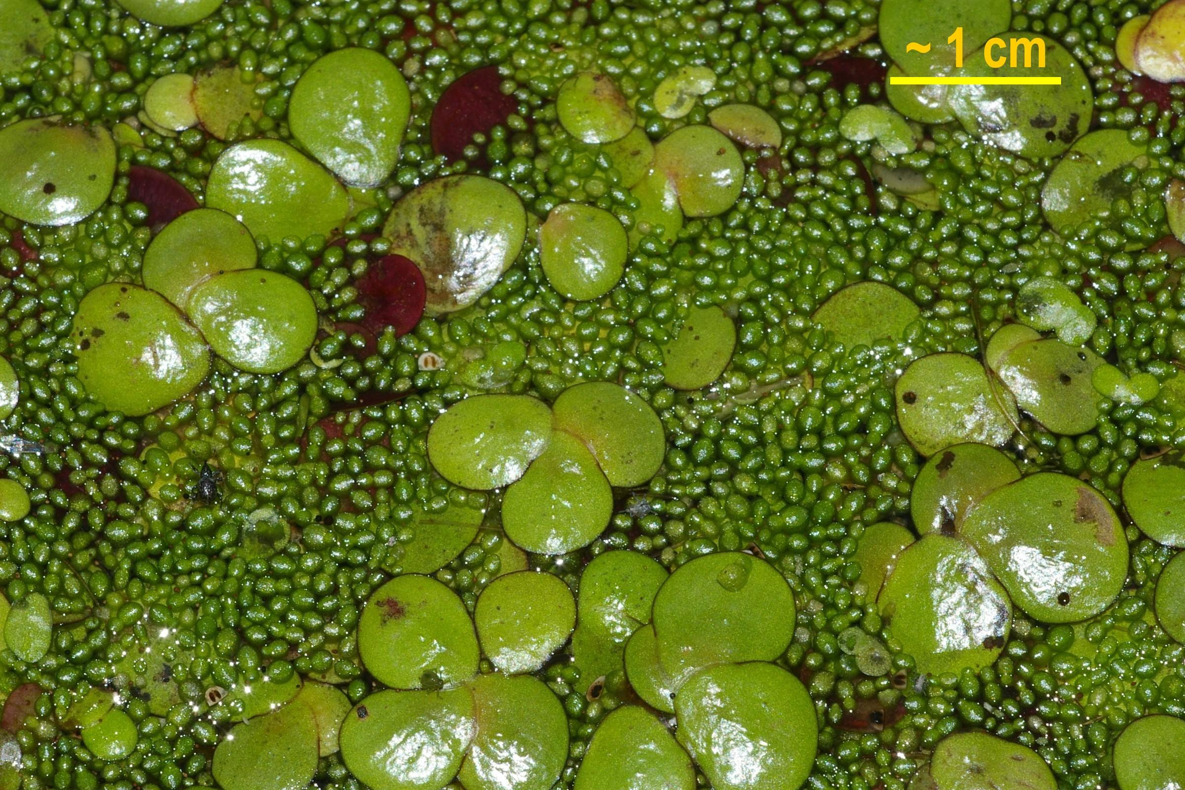 Comparison of the smallest and the largest duckweed species in Europe - Wolffia arrhiza (small) and Spirodela polyrhiza (large).